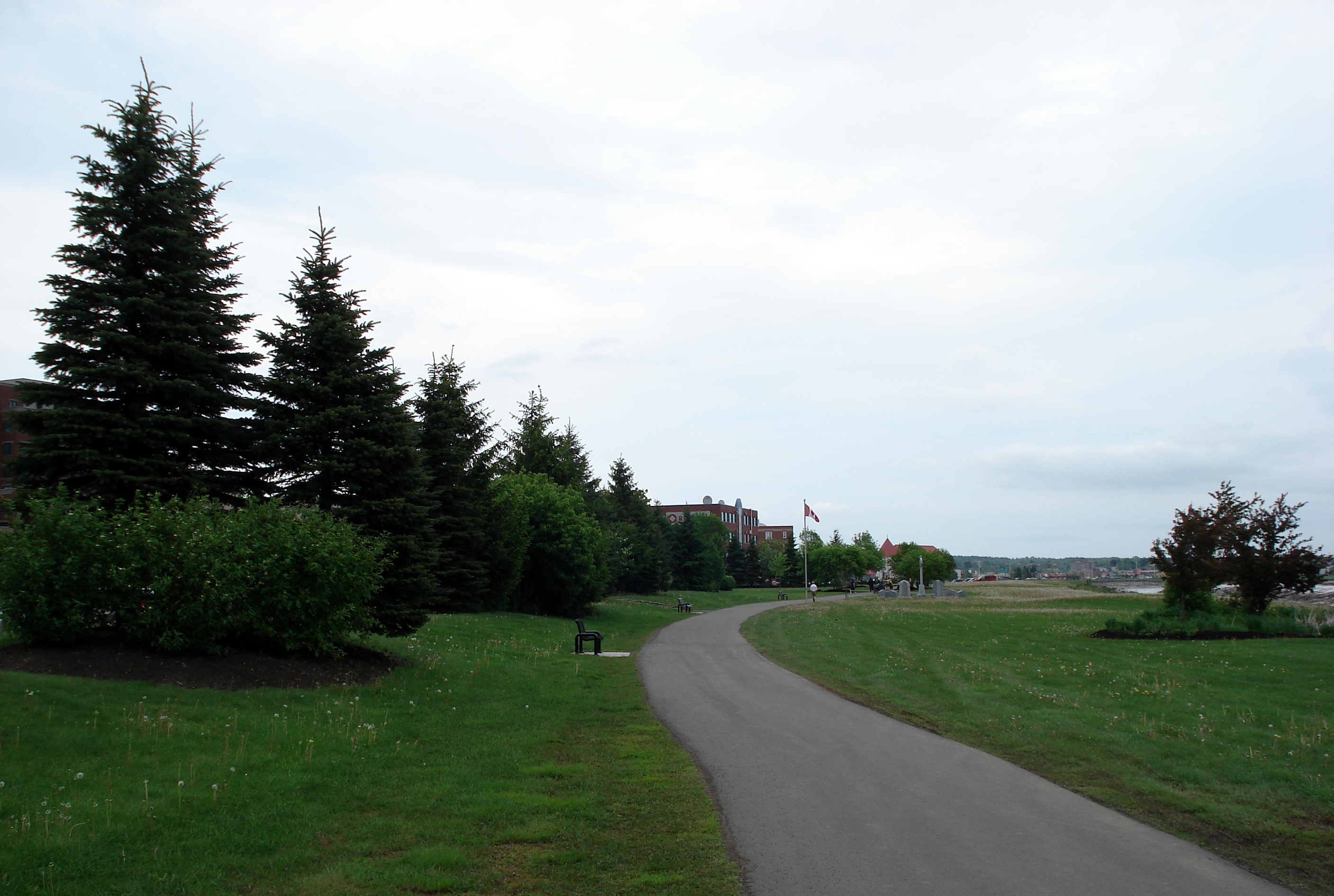 Riverfront Trail, downtown Moncton